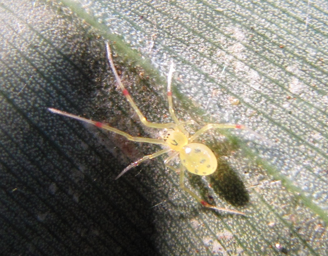 Image of the Theridion grallator